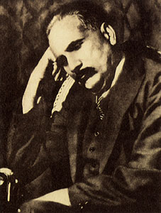 Depicted person: Muhammad Iqbal – poet and leader of the Pakistan Movement